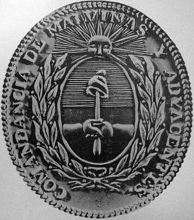 Coat of Arms of Malvinas Islands (1829)